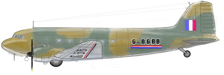 Artist's impression Original illustration was incorrect: KLM DC-3s in England during the Second World War were painted in brown/green camouflage and had a red/white/blue line under the registration on the fuselage and wings, and did not have a BOAC logo on the nose as they were still KLM property. BOAC only chartered them.